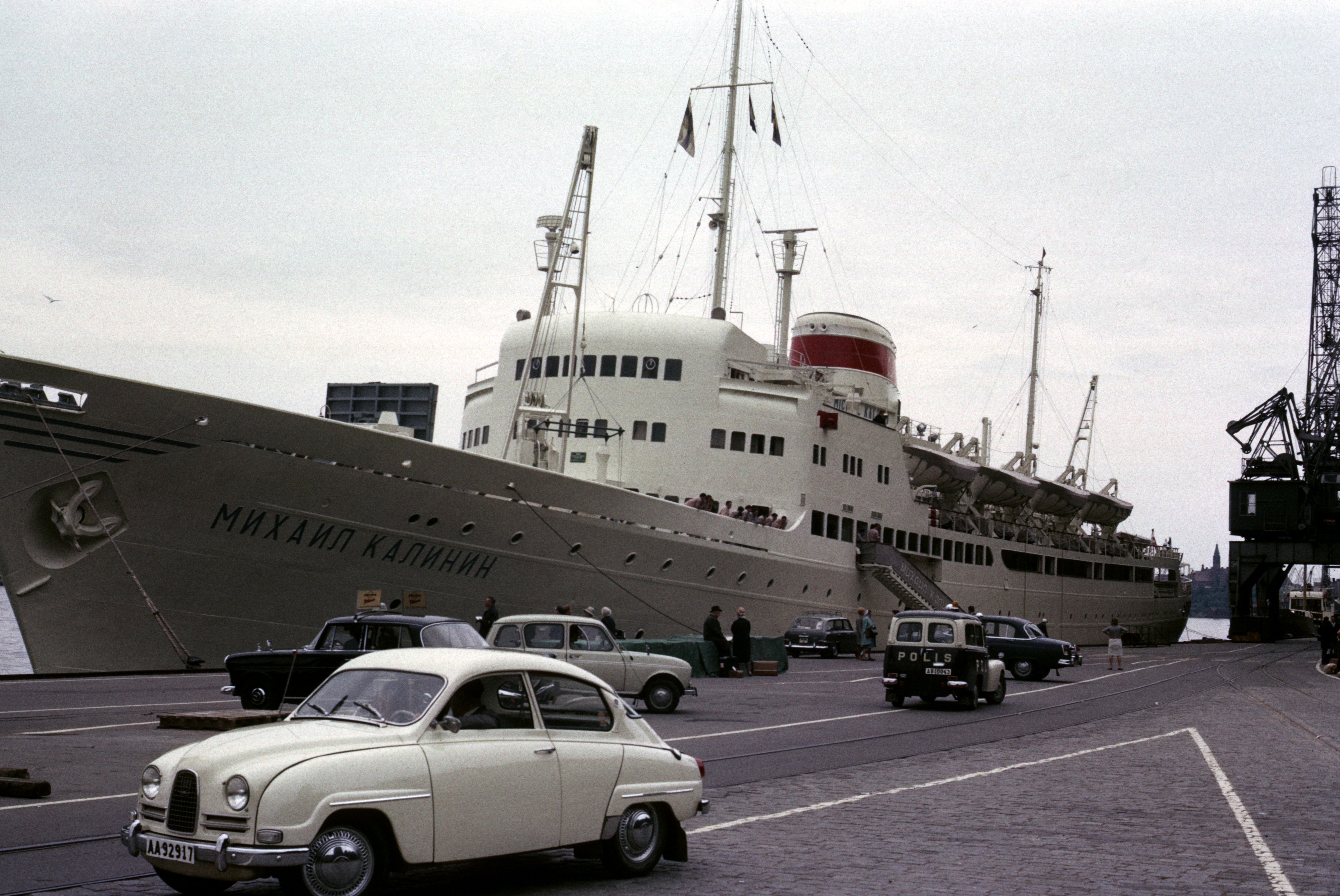 Russian ship Stockholm harbor. The ship's called Mikhail Kalinin.